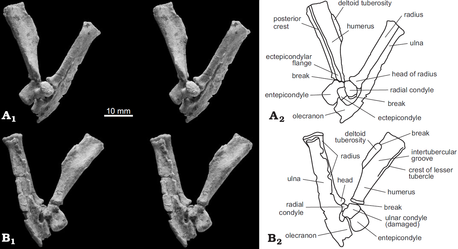 Multituberculate mammal Catopsbaatar catopsaloides (Kielan−Jaworowska, 1974), PM 120/107, Upper Cretaceous, red beds of Hermiin Tsav, Hermiin Tsav I locality, Gobi Desert, Mongolia (no. 21 in Fig. 1A and B). Incomplete right humerus in association with radius and ulna. A. Dorsal view. B. Ventral view. Stereo−photographs (A1, B1) and explanatory drawings of the same (A2, B2).